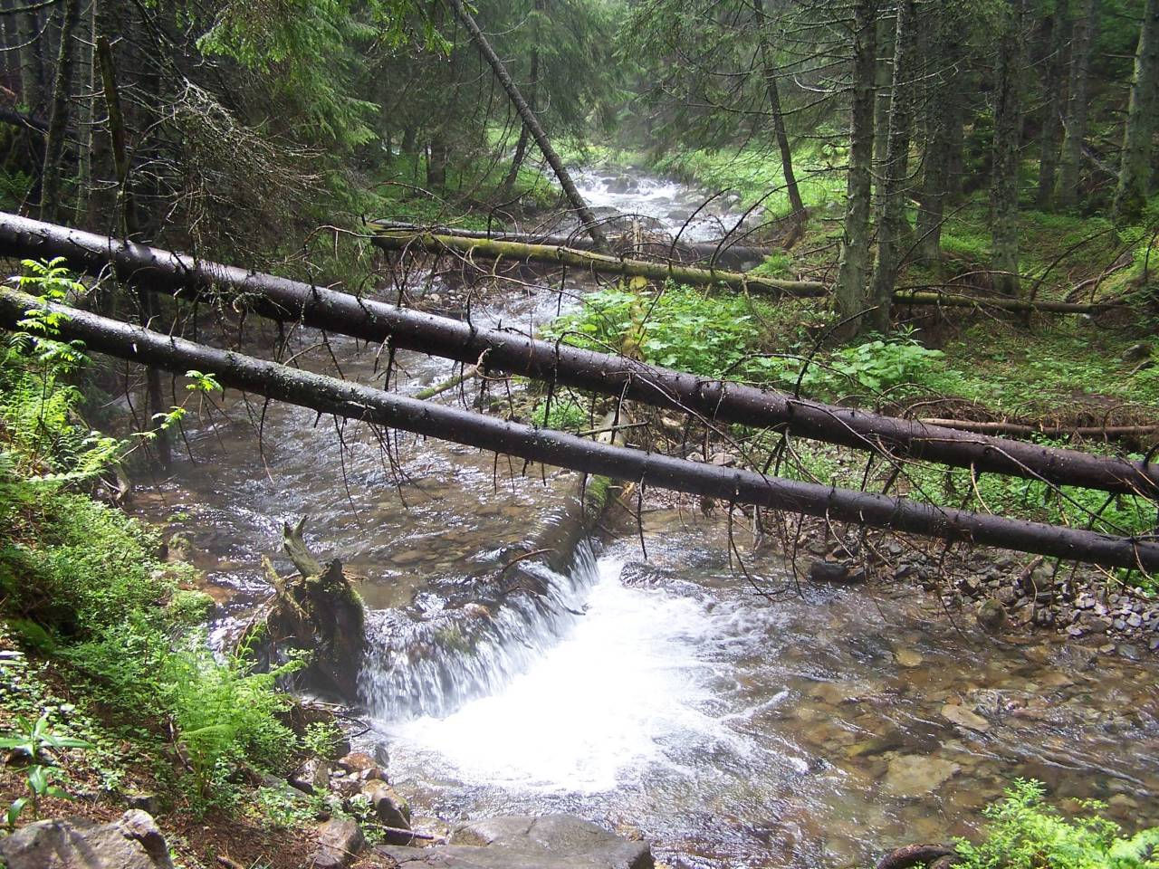 Tomanowy Potok (Tatra Mountains)